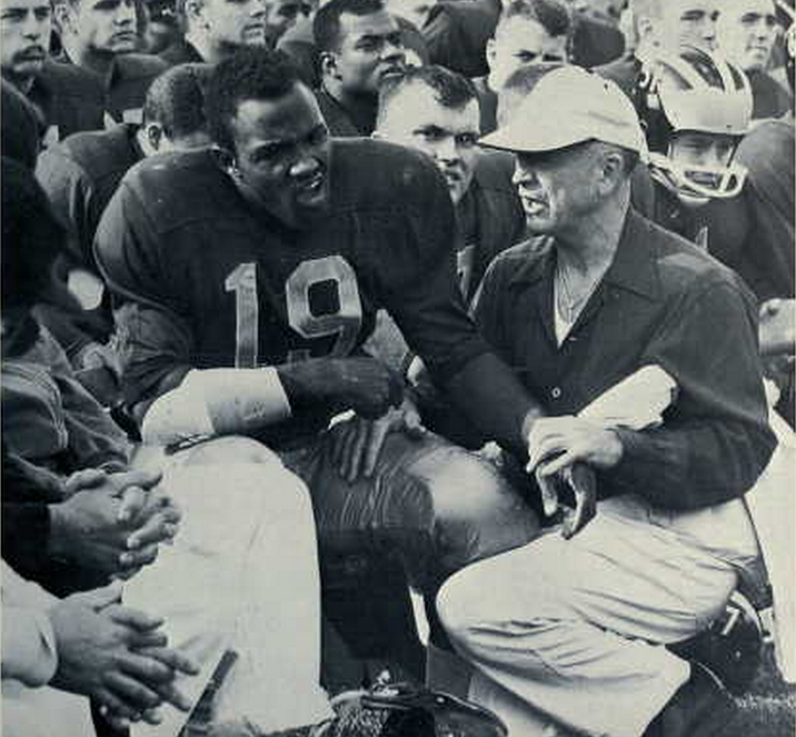 Photograph of Dave Raimey on the sidelines during Michigan-Wisconsin game This work is in the public domain because it was published in the United States between 1923 and 1963 and although there may or may not have been a copyright notice, the copyright was not renewed. Unless its author has been dead for the required period, it is copyrighted in the countries or areas that do not apply the rule of the shorter term for US works, such as Canada (50 pma), Mainland China (50 pma, not Hong Kong or Macao), Germany (70 pma), Mexico (100 pma), Switzerland (70 pma), and other countries with individual treaties. See Commons:Hirtle chart for further explanation. This work is in the public domain in the United States because it was published in the United States between 1923 and 1977 without a copyright notice. See this page for further explanation. Note that it may still be copyrighted in jurisdictions that do not apply the rule of the shorter term for US works (depending on the date of the author's death), such as Canada (50 p.m.a.), Mainland China (50 p.m.a., not Hong Kong or Macao), Germany (70 p.m.a.), Mexico (100 p.m.a.), Switzerland (70 p.m.a.), and other countries with individual treaties.